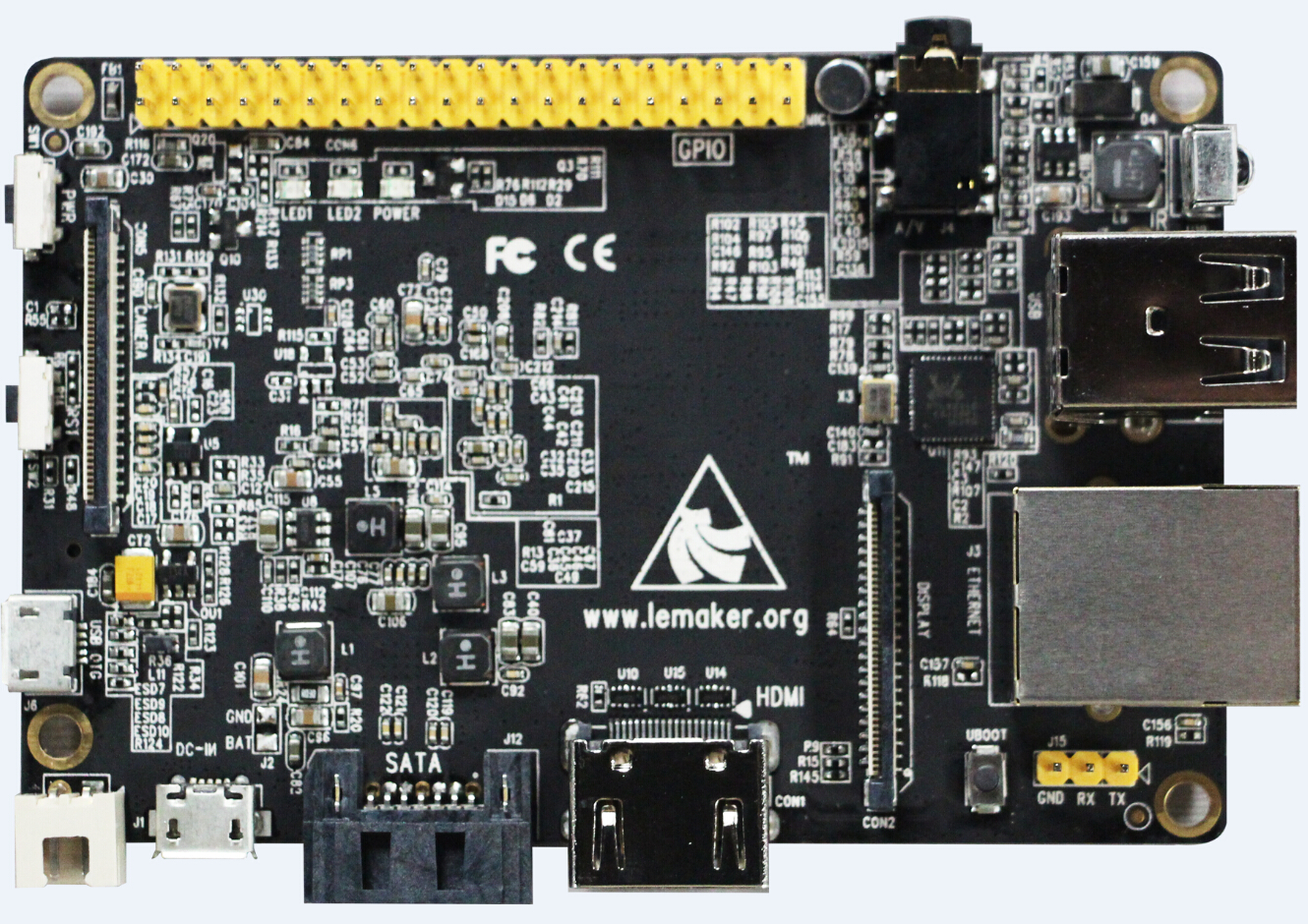 LeMaker Banana Pro front picture.